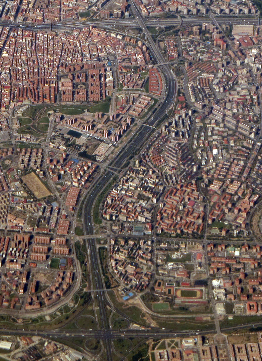 Puente de Vallecas